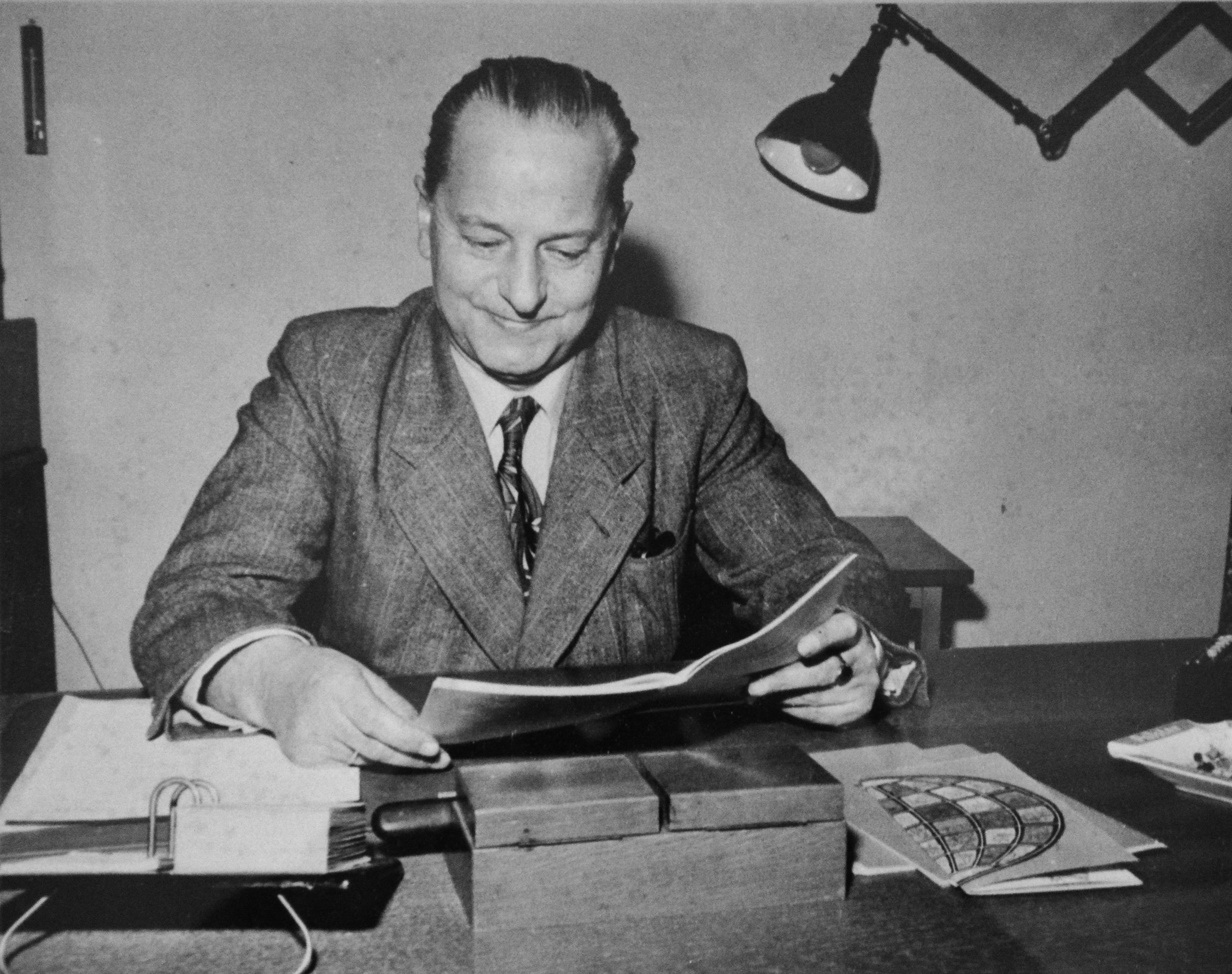 Karl Pfändtner